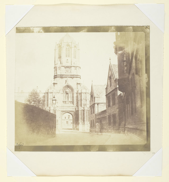 Salted paper print by Henry Fox Talbot